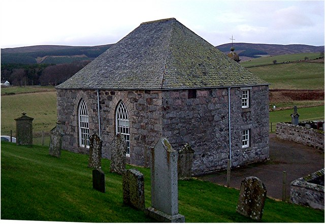 Kildrummy Church Built on the cemetery hill incorporating stone salvaged from the original St Bride's Chapel that once stood near. Indeed the charnel house may be the remains of the latter's porch, which served as a burial aisle for the lairds of Elphinstone.